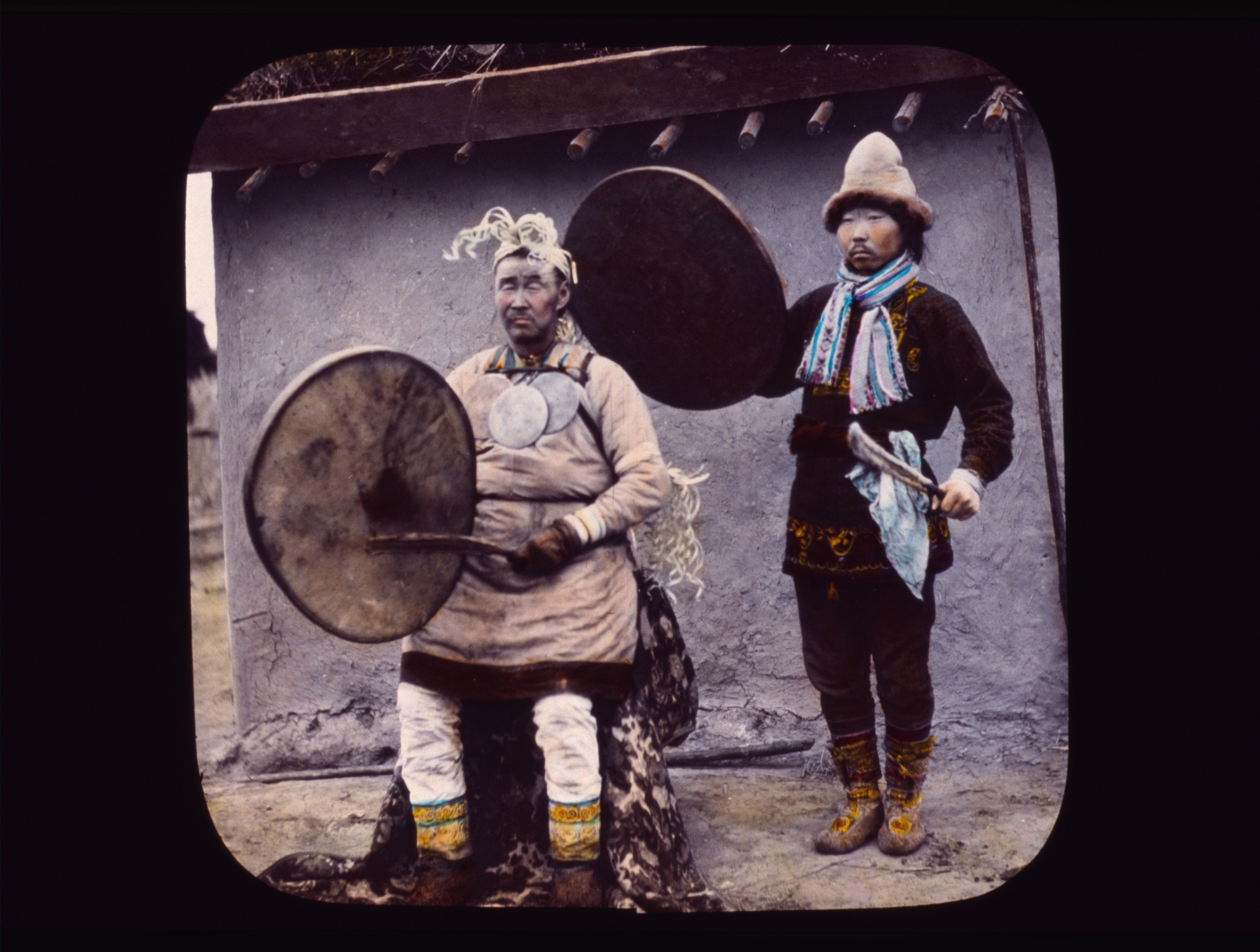 Title: Goldi shaman priest and assistant Physical description: 1 photographic print : gelatin silver ; 8 x 10 in. or smaller. Notes: Similar to lantern slide W7-1149.; Gift; Colorado Historical Society; 1949.; Published as halftone in Harper's Weekly, 1897, p. 809.; Forms part of: Jackson, William Henry, 1843-1942. World's Transportation Commission photograph collection (Library of Congress).; Photographic print made by LC from Jackson's vintage film negative.